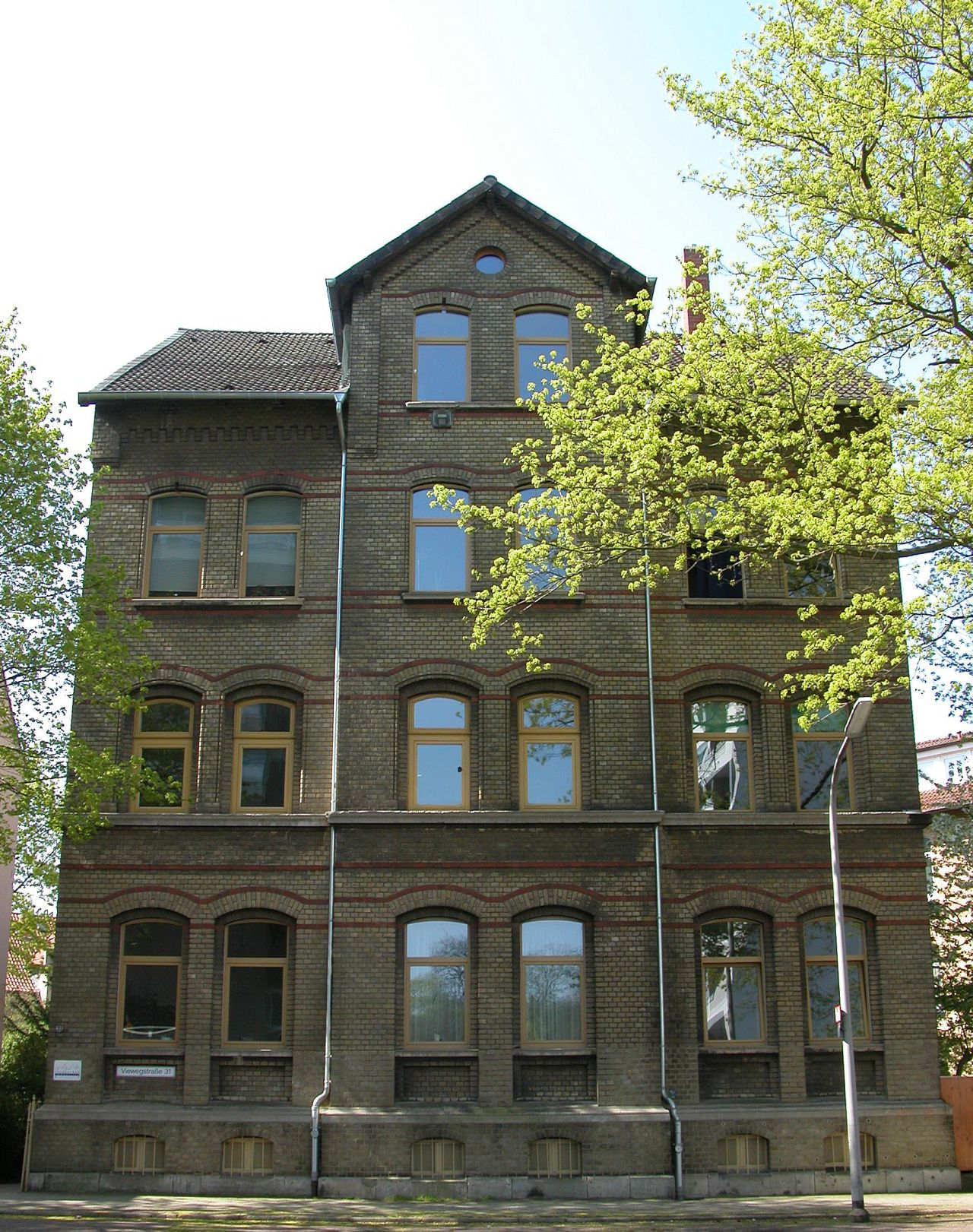 32. Brunswick, Germany: Viewegstraße 31, neighbour-building of first Rollei-building, Viewegstraße 32.